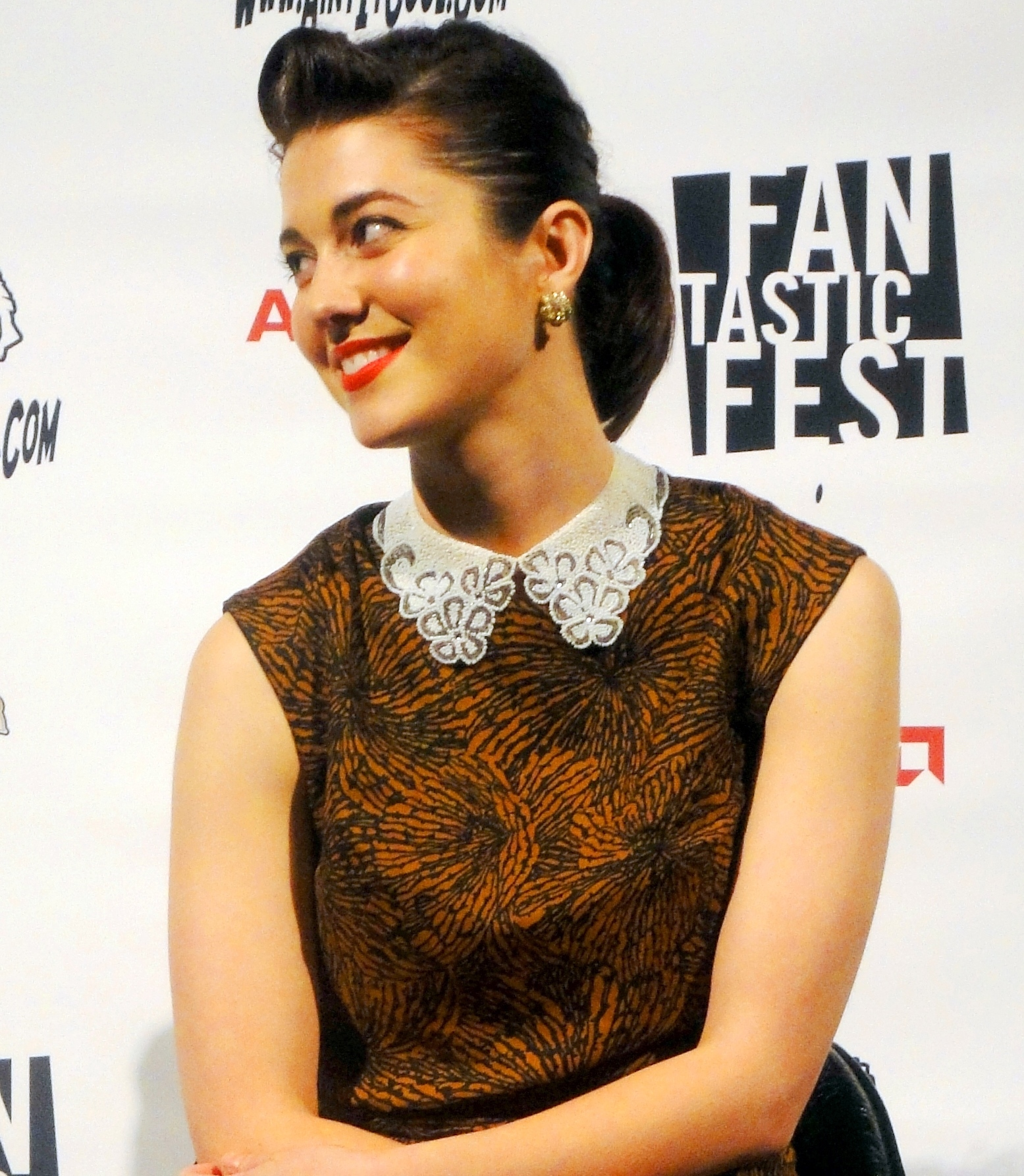 Mary Elizabeth Winstead at the Scott Pilgrim vs. The World, Austin Alamo Drafthouse (South Lamar) 2010.